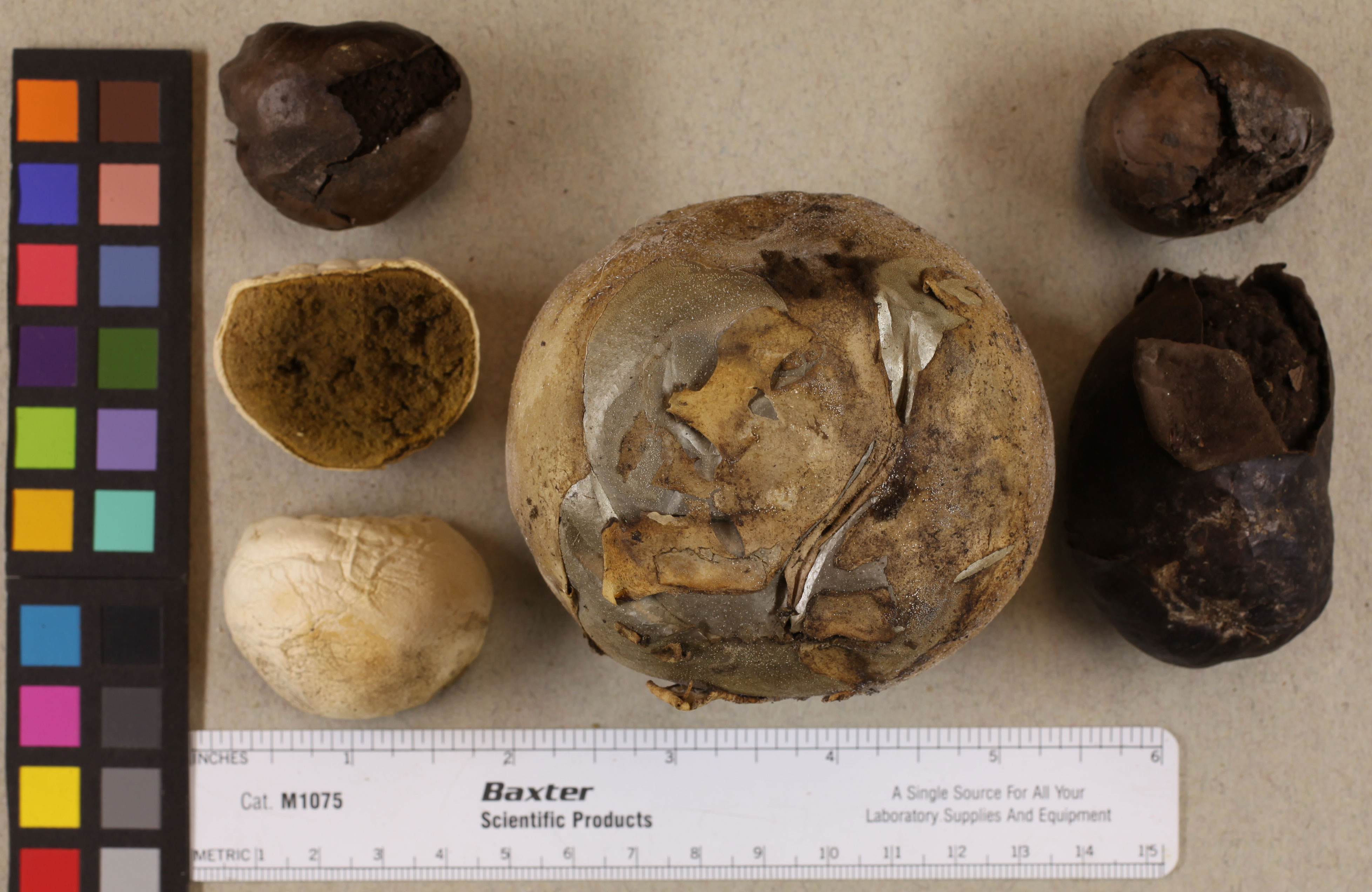 Collection of several specimens of the the puffball fungus Bovista pila, made in California.